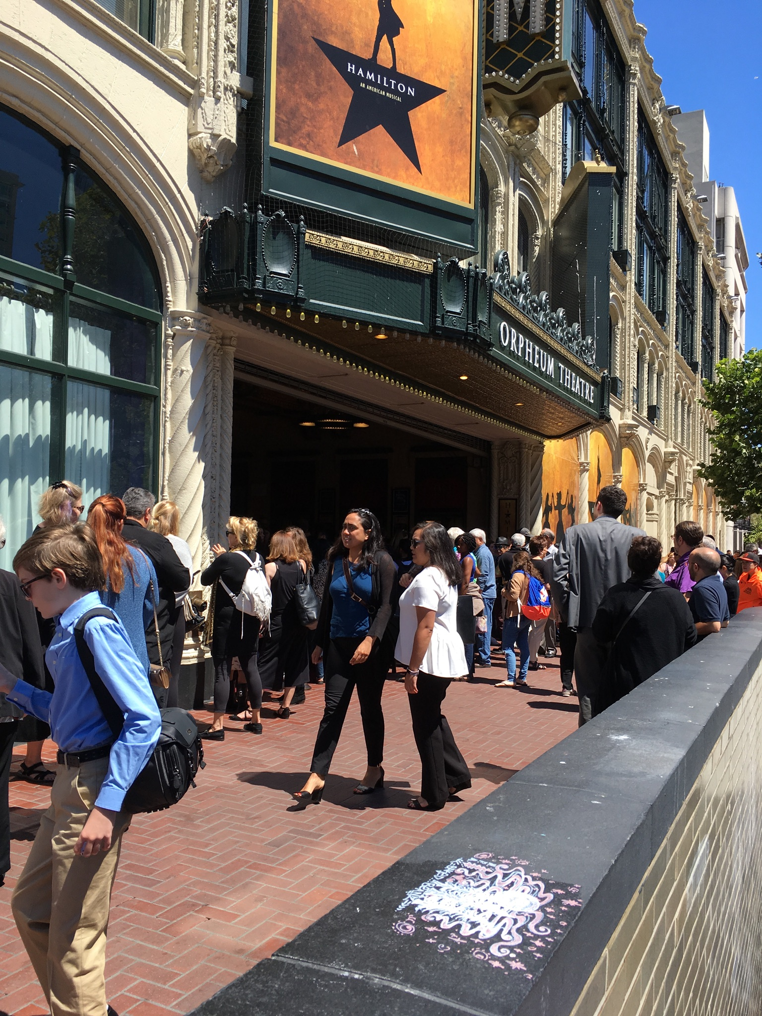 Crowd gathers before a showing of touring Hamilton showing in San Francisco.